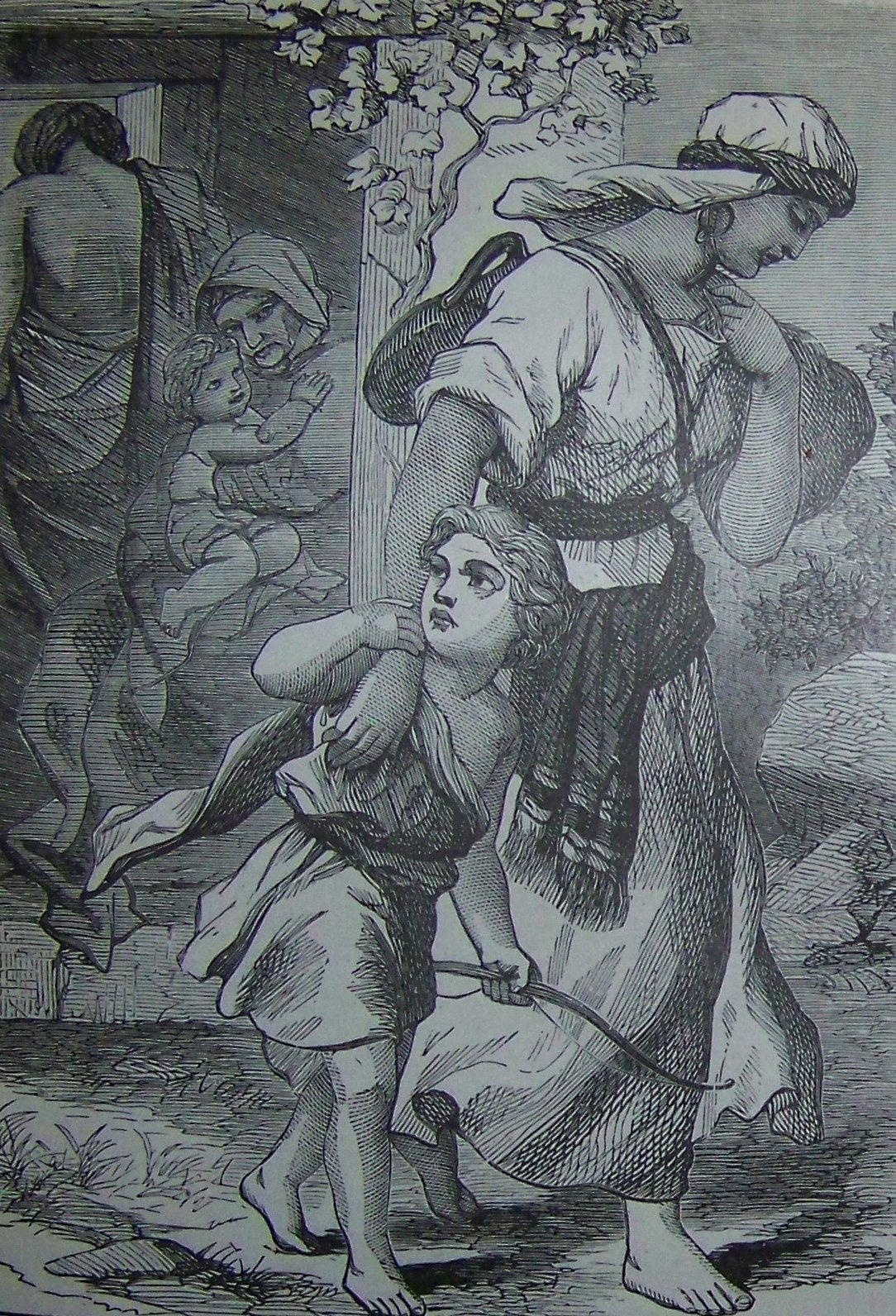 Hagar and Ishmael cast out, as in Genesis 21, illustration from the 1890 Holman Bible